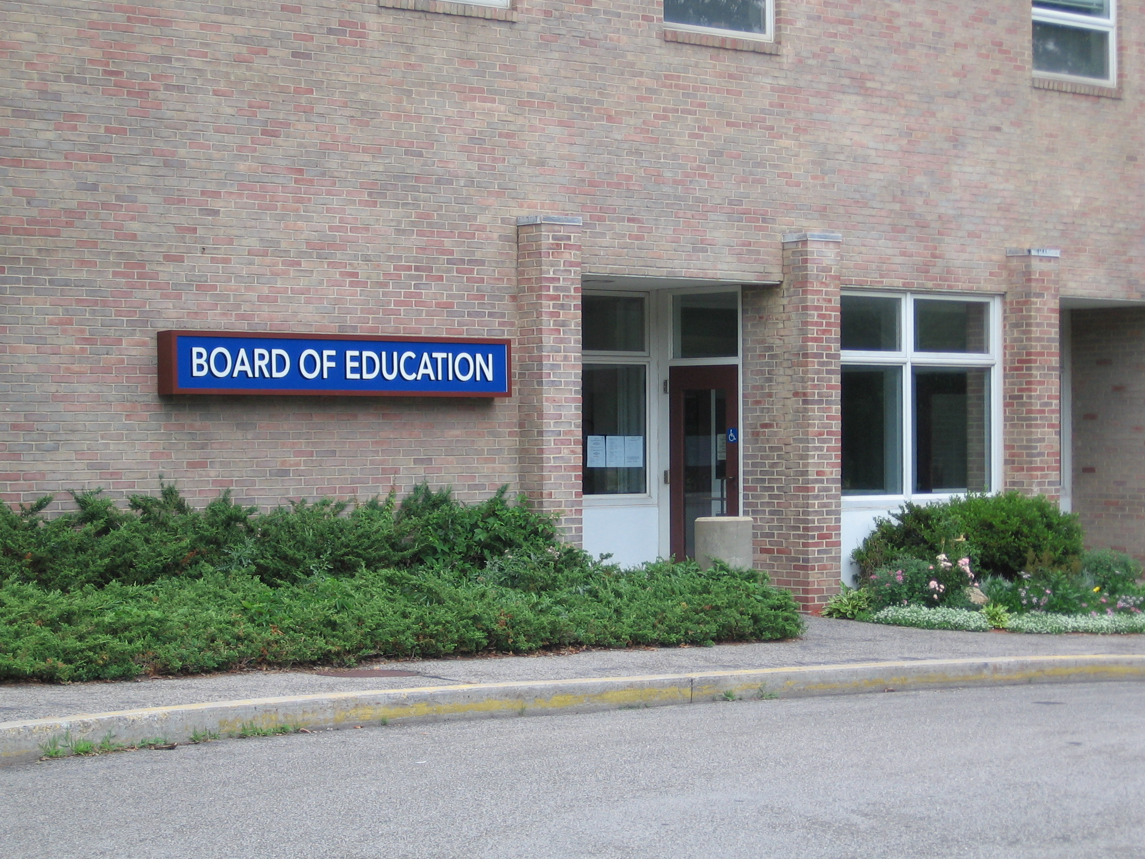 Darien Public Schools district headquarters in the lower part of Town Hall, Darien, Connecticut